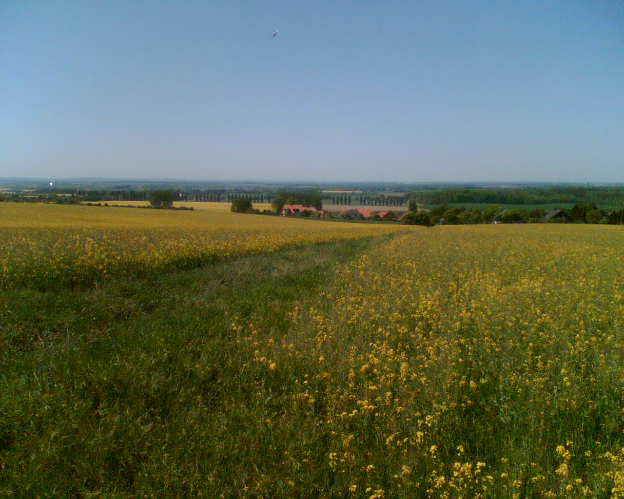 View from Hemkenrode to the south-west, Hemkenrode, Germany